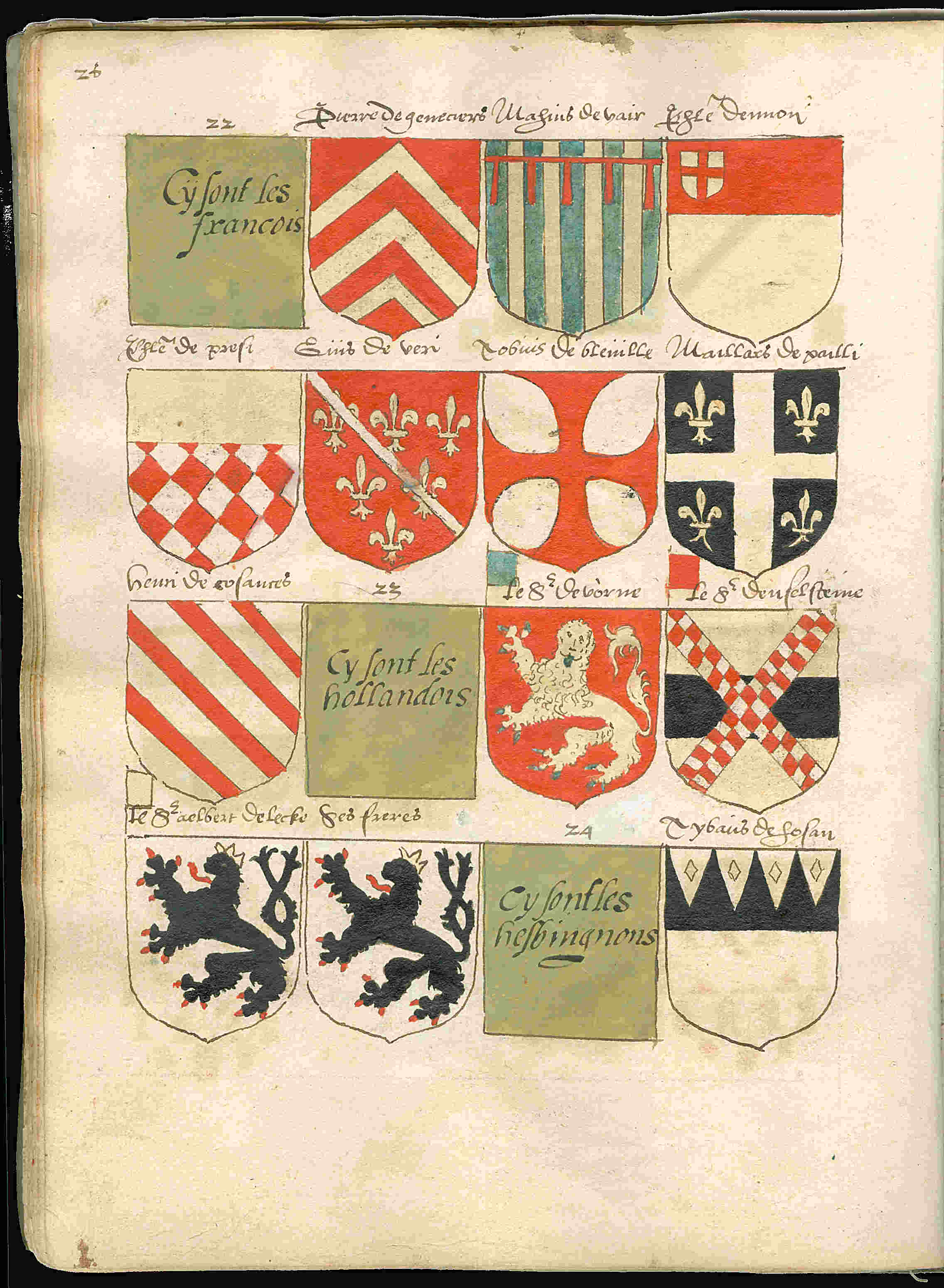 Page 26 from a copy of the Beyeren armorial / Wapenboek Beyeren from ca. 1600. The original Beyeren armorial from 1405 can be viewed at the website of the KB